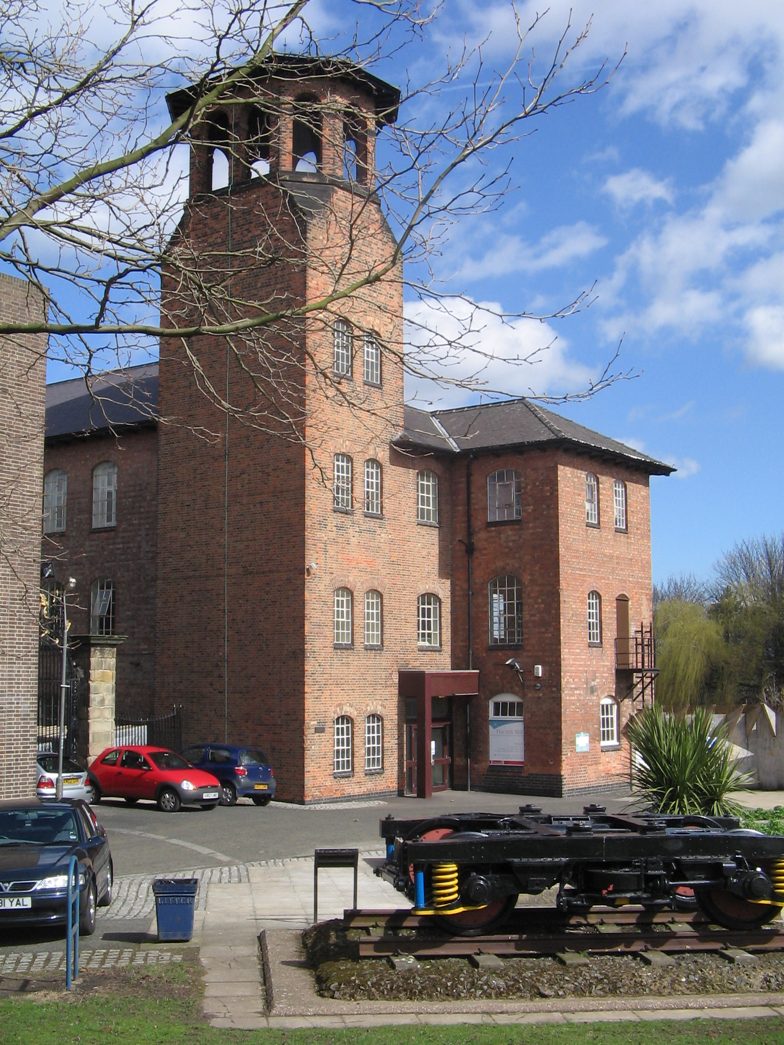 The Derby Silk Mill (Derby Museum of Industry) showcases much of the city and counties rich industrial heritage. It is part of the Derwent Valley Mills World Heritage Site - the East Midlands only such heritage site. This particular Mill is the world first Silk Mill, and thus one of the worlds most historically important buildings. Derby City Council recently applied for lottery funding to upgrade the museum however was rejected. This shot is currently impossible to take due to the Cathedral Green landscaping work.